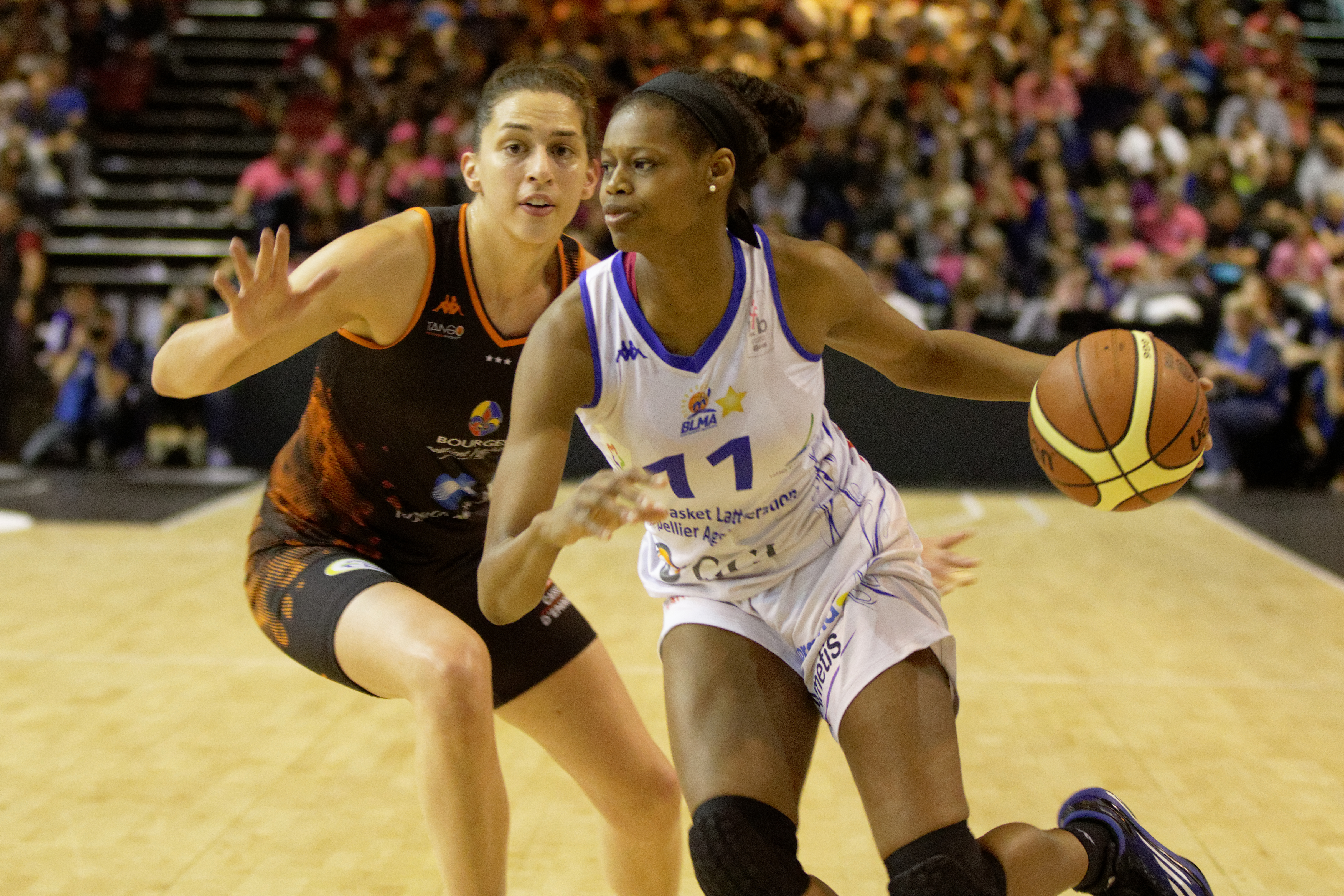 Final of the French Basketball Cup, Lattes-Montpellier vs Bourges, 2nd May 2015.